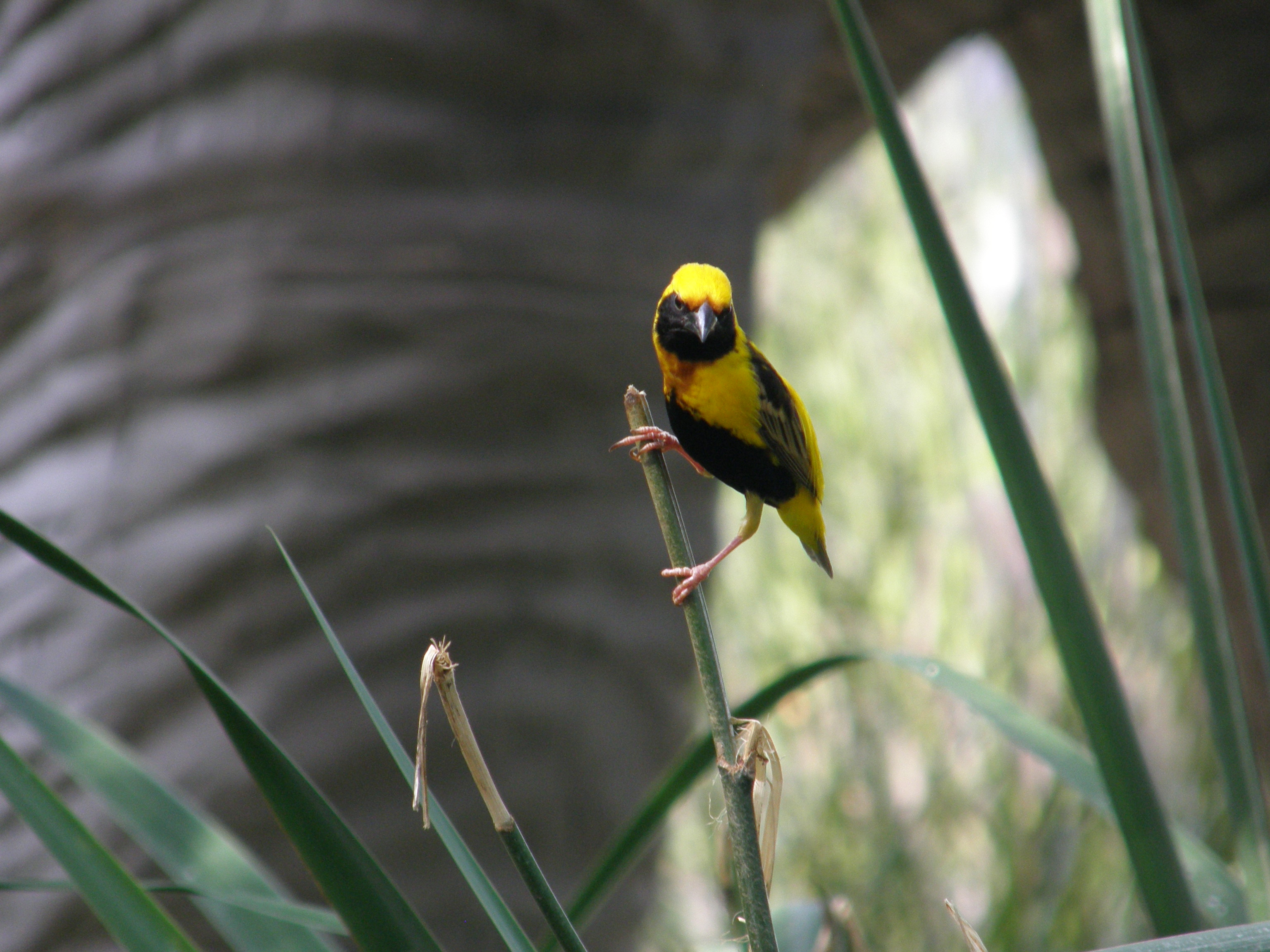 Yellow-crowned bishop, Euplectes afer